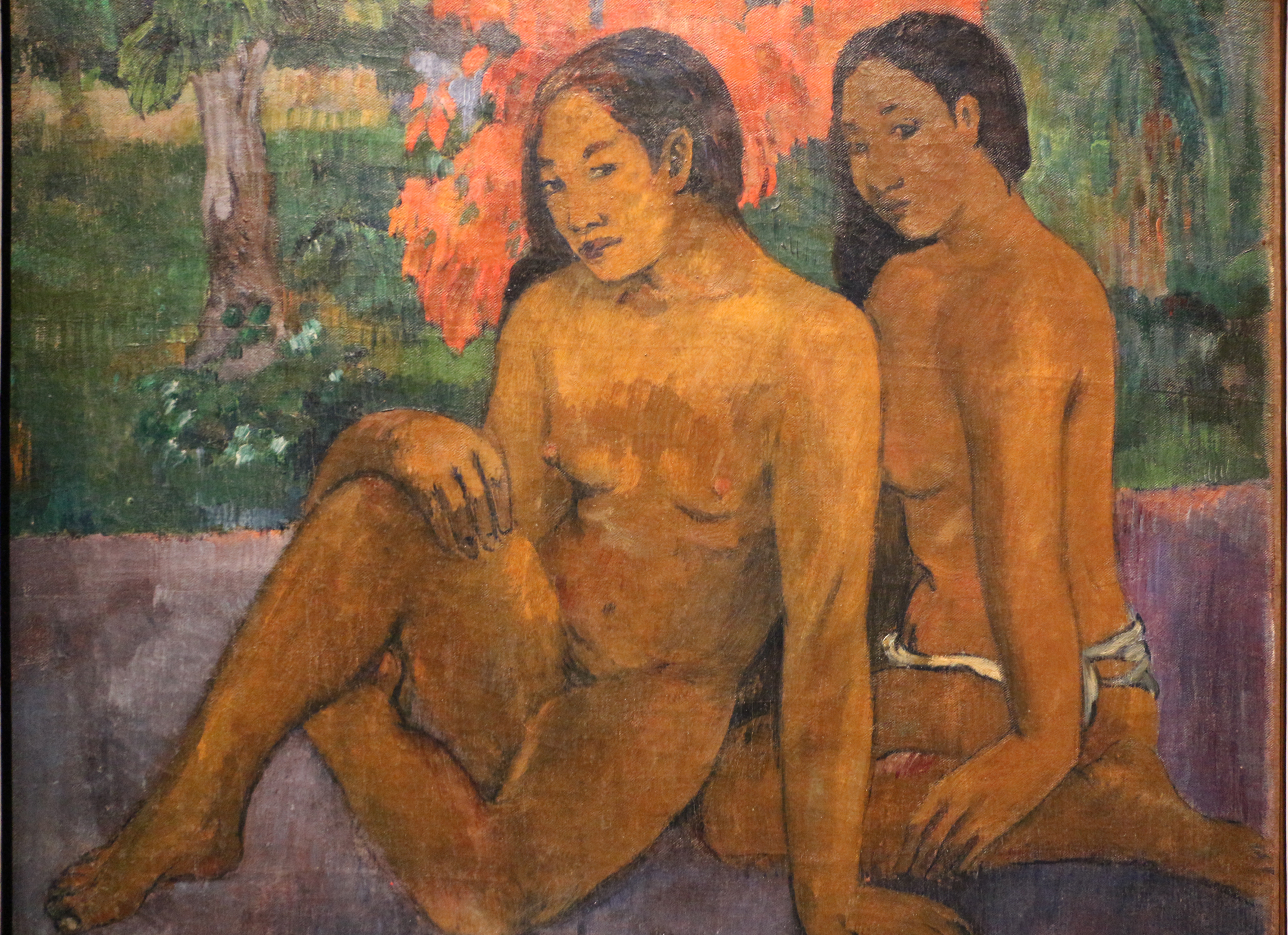 Paintings by Paul Gauguin in the Musée d'Orsay